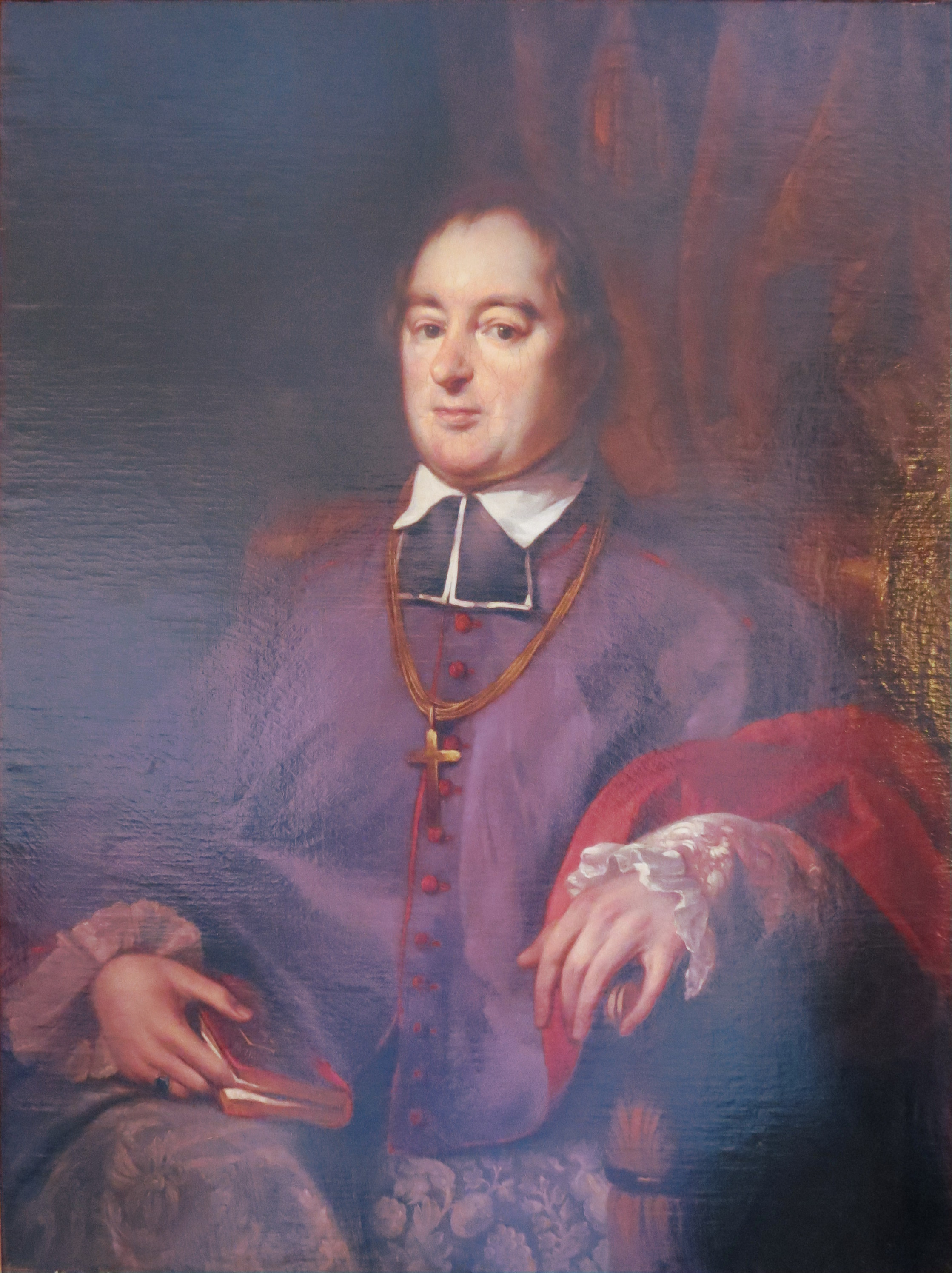 Bishop Cornelis van Bommel of diocese of Liege, Low Countries. Painting in the 'Bishops room' Rolduc Abbey, Kerkrade, The Netherlands